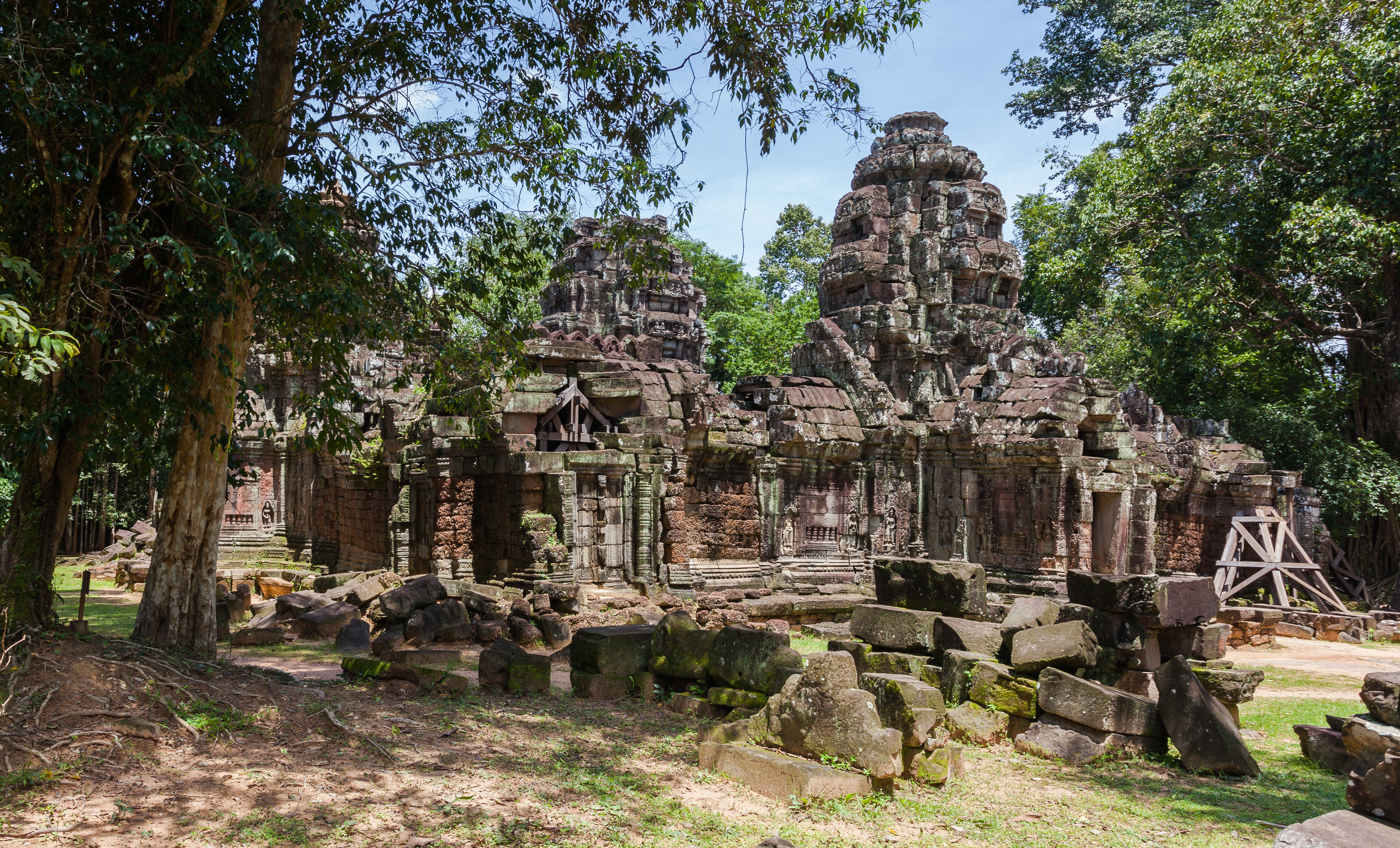 Ta Som, Angkor, Cambodia